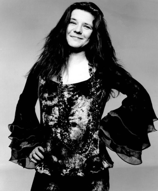 Publicity photo of Janis Joplin.